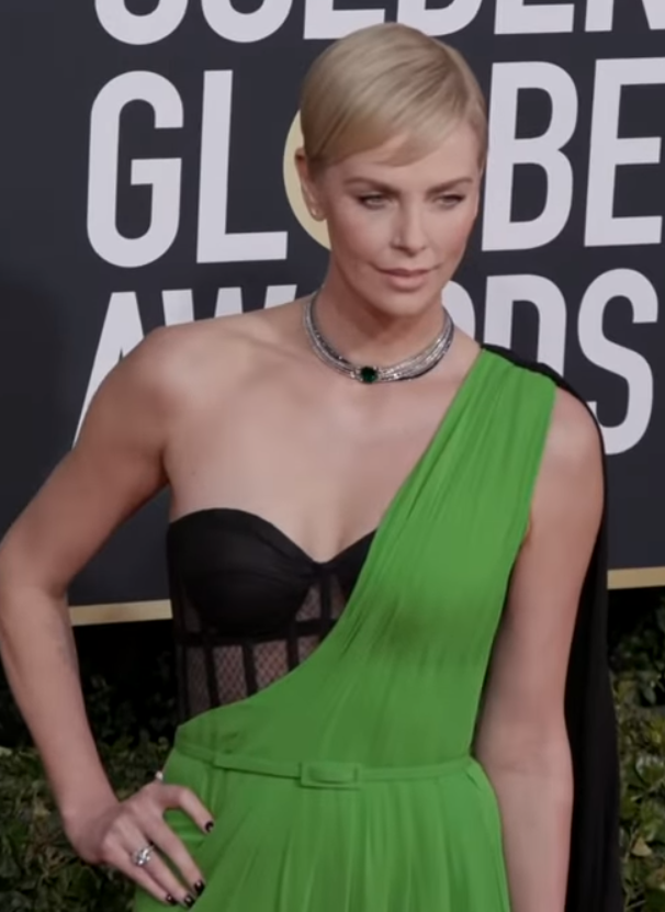 Charlize Theron at Golden Globes Red Carpet 2020